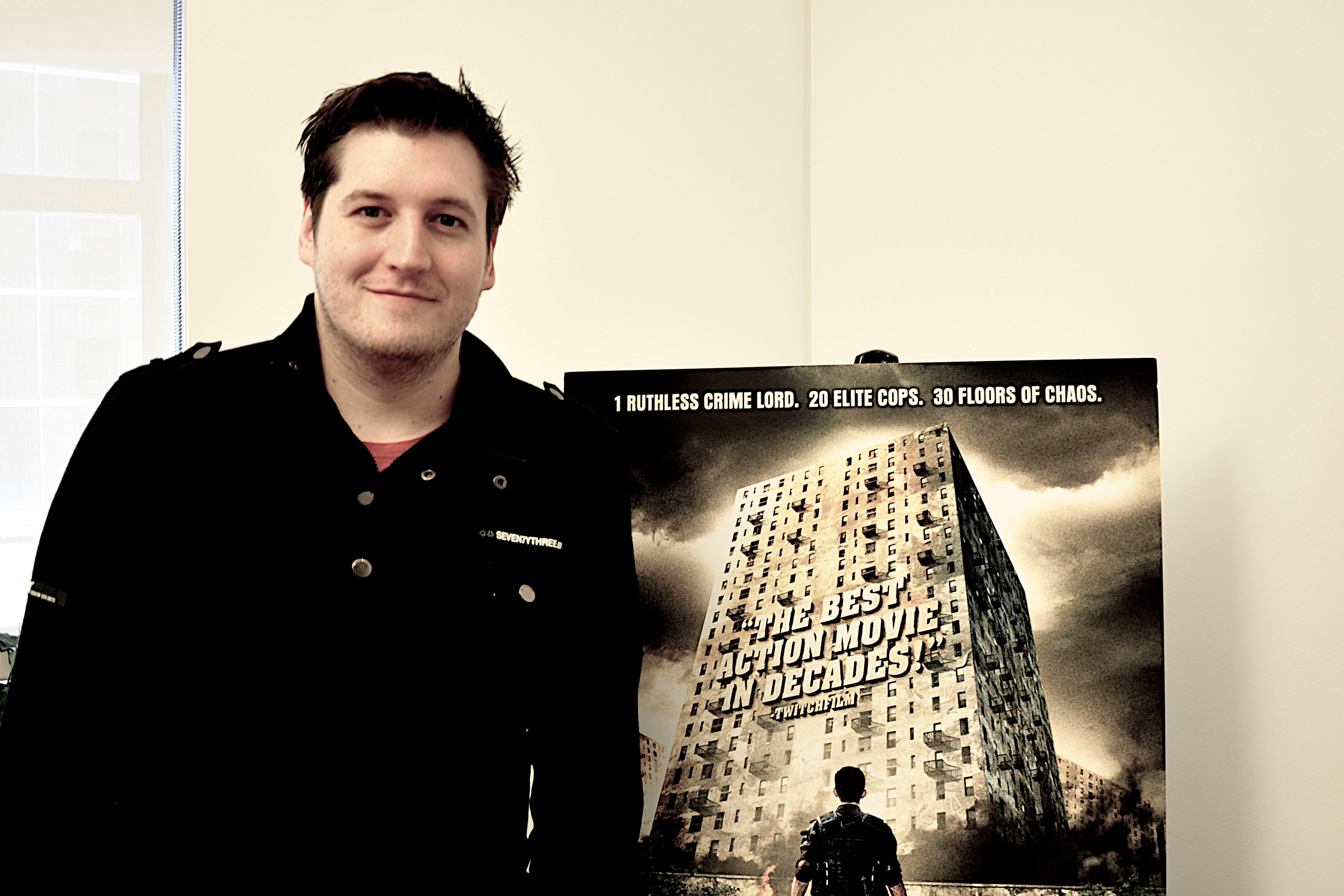 Evans at the Film stage